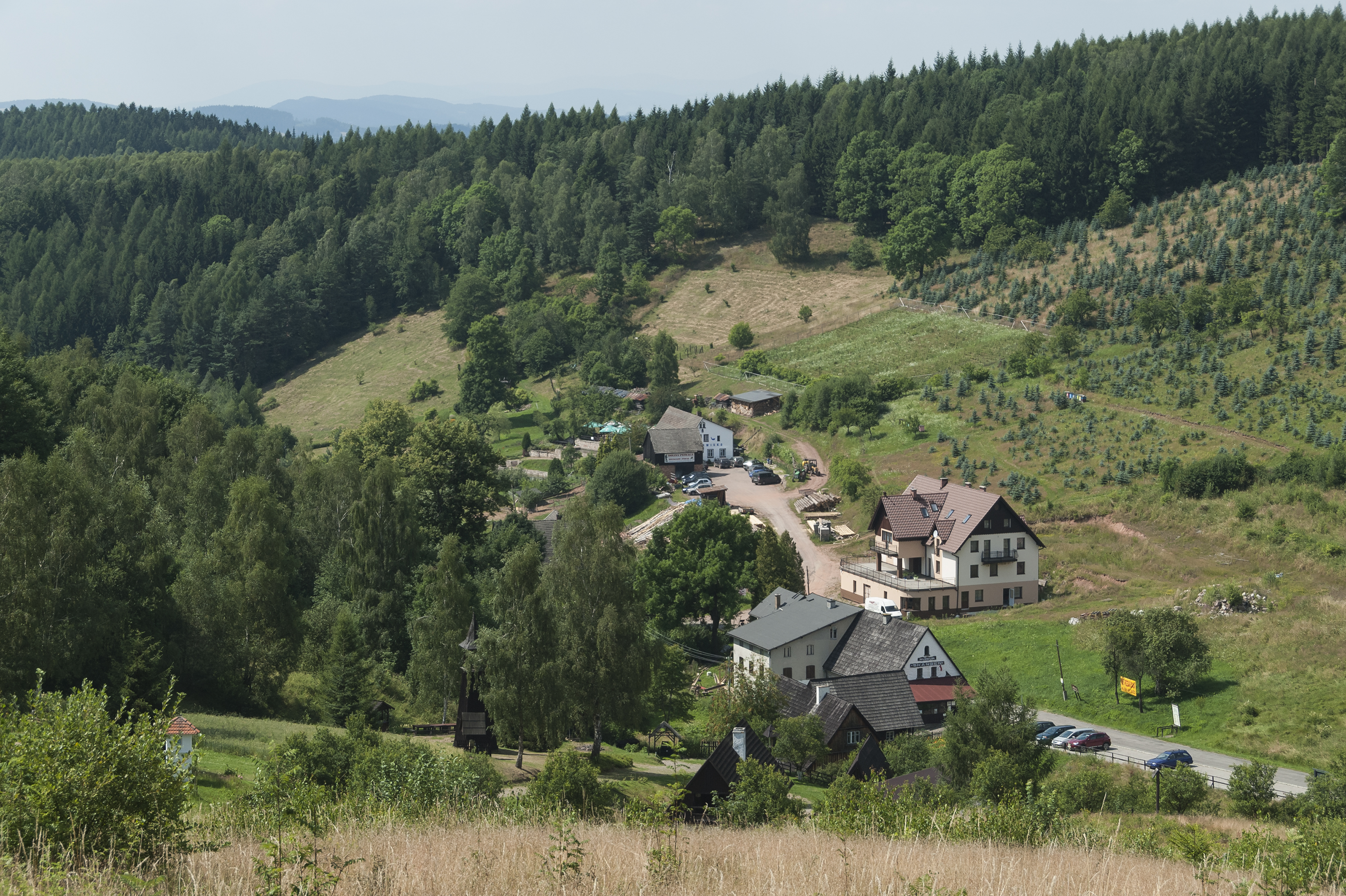 Kudowa-Zdrój - Pstrążna